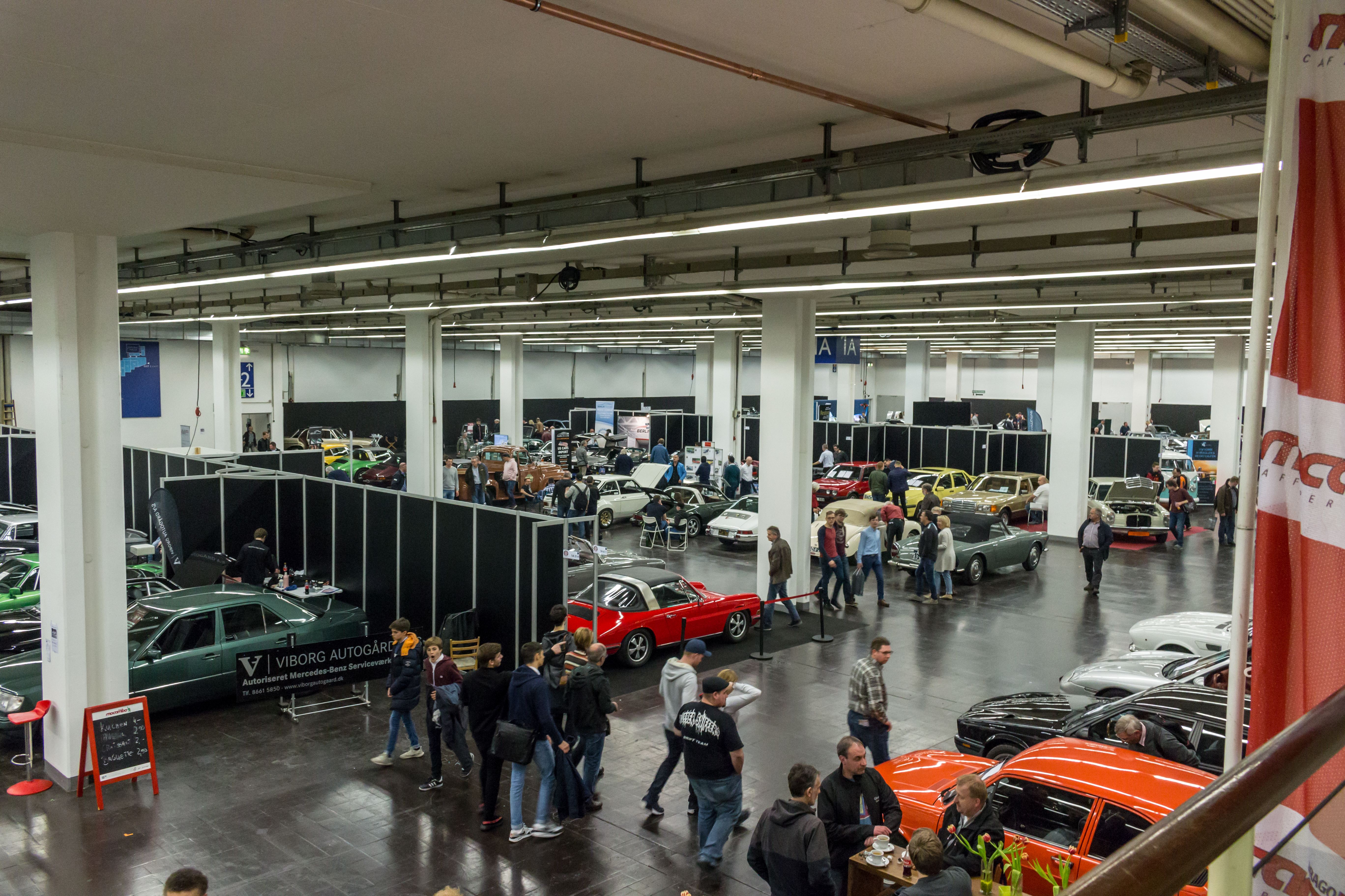 Porsche, Techno-Classica 2018, Essen